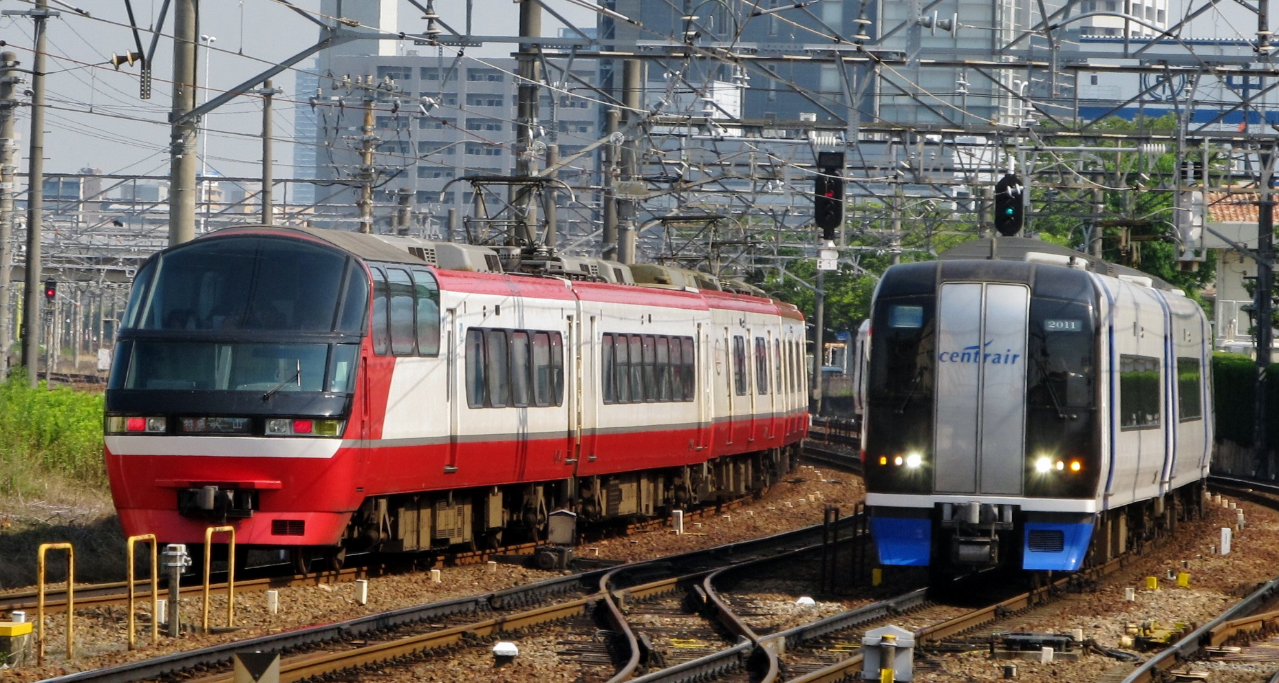 Meitetsu 2000 series (Right) and refurbished 1200 series (Left) EMU